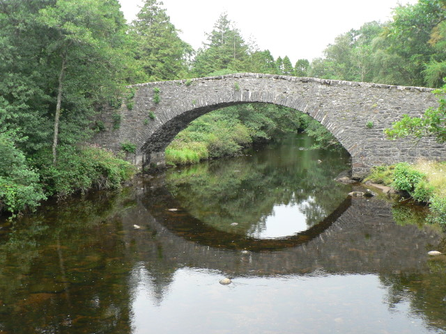 Former road bridge across the River Moidart at Ardmolich/Kinlochmoidart, Scotland